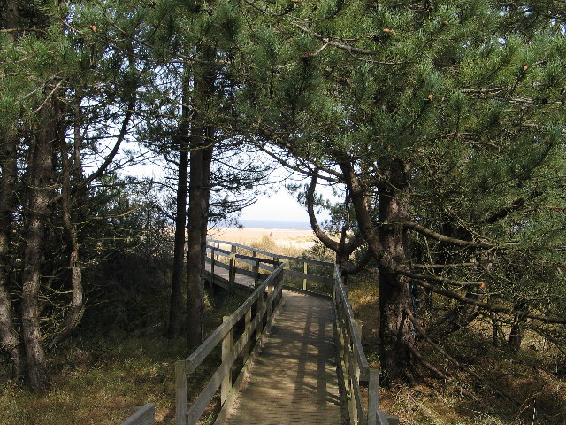 Holkham beach from Holkham Meals.